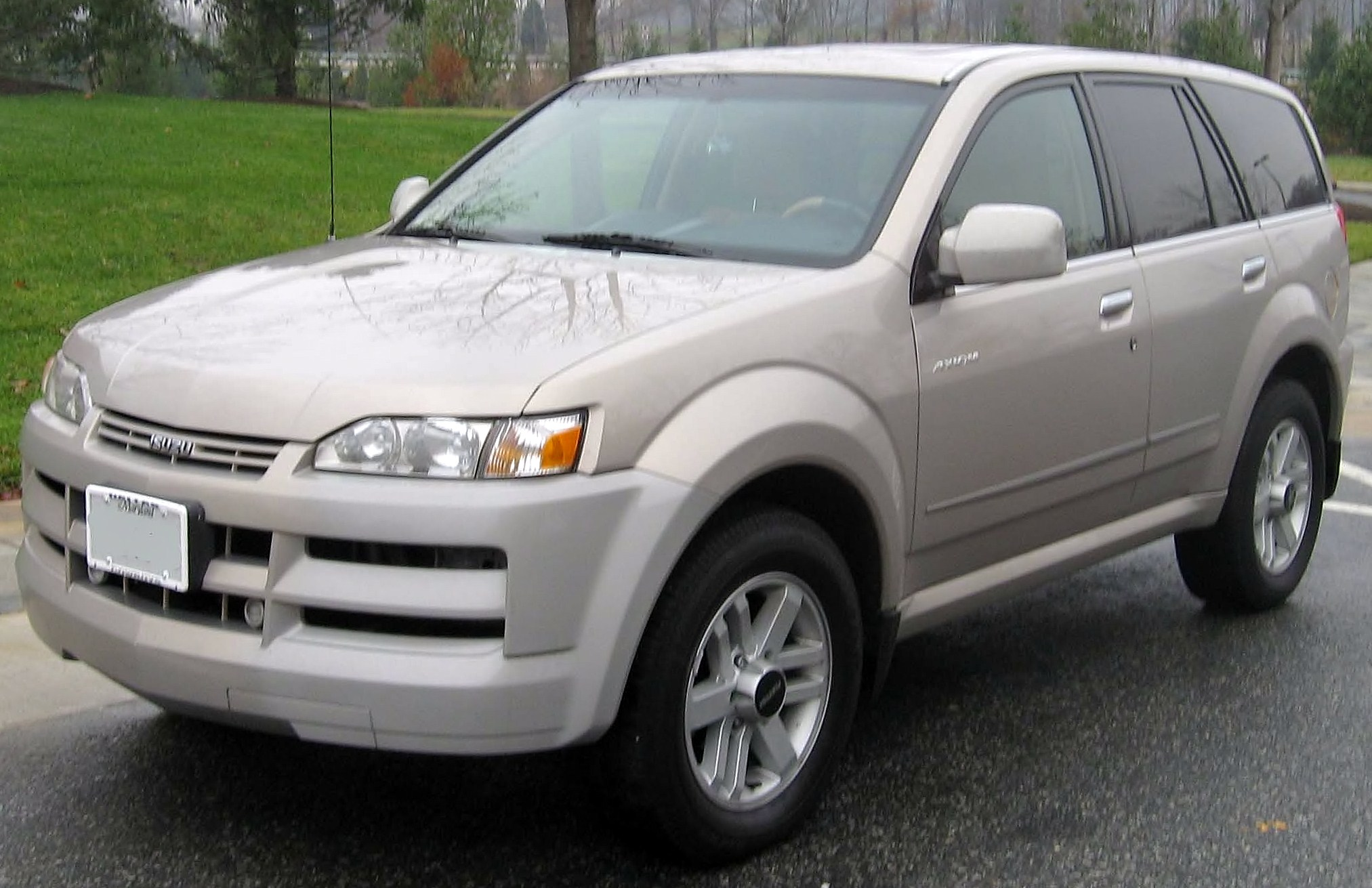 2002 Isuzu Axiom photographed in College Park, Maryland, USA. The 2002 model was the only one that had the raise center cap in the wheel. A flush center cap was an option on 02 and standard on 03-04 models.